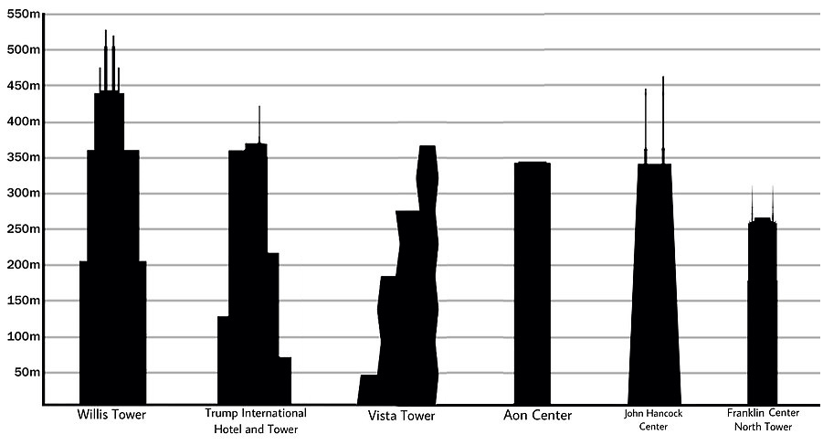 Tallest Buildings in Chicago 2019